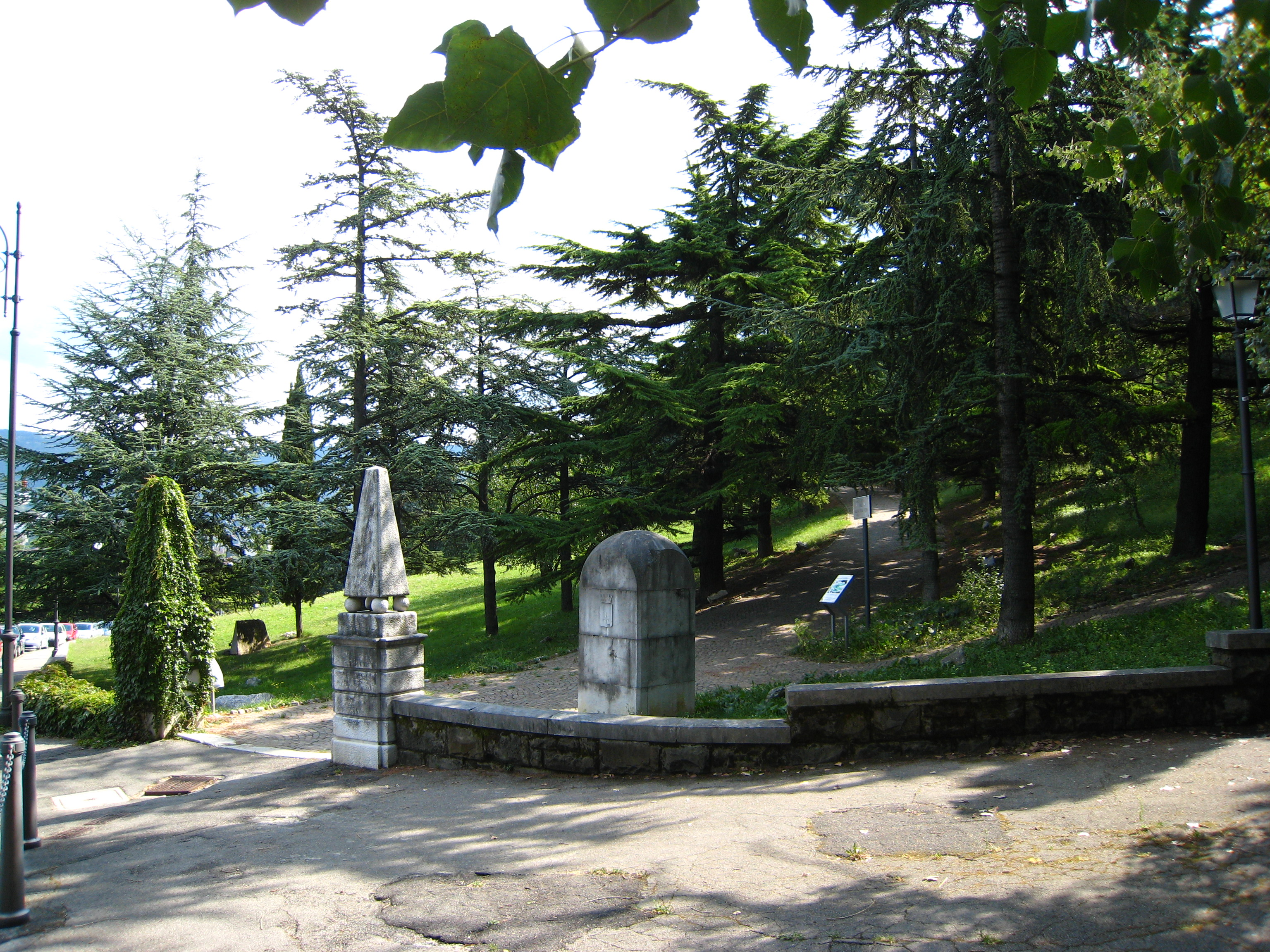 Italy - Trieste - Park on San Giusto hill